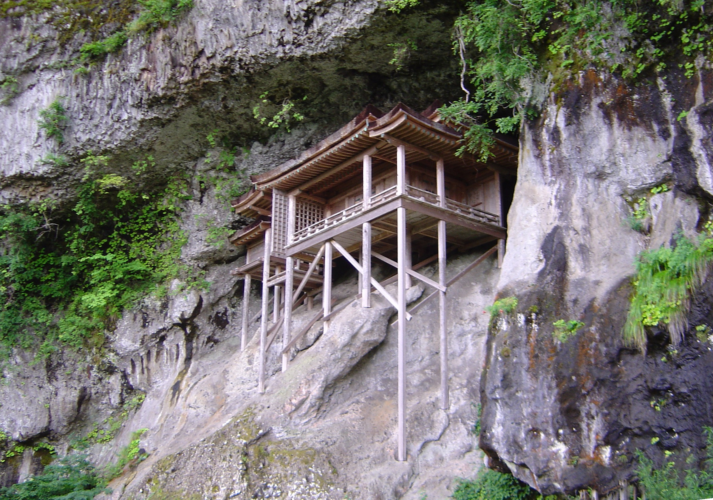 The Nageiredo in the temple of the Mitoku-san in Tottori Prefecture, Japan.